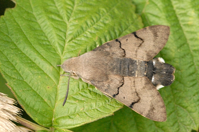 Picture taken in Commanster, Belgian High Ardennes . Species: Macroglossum stellatarum